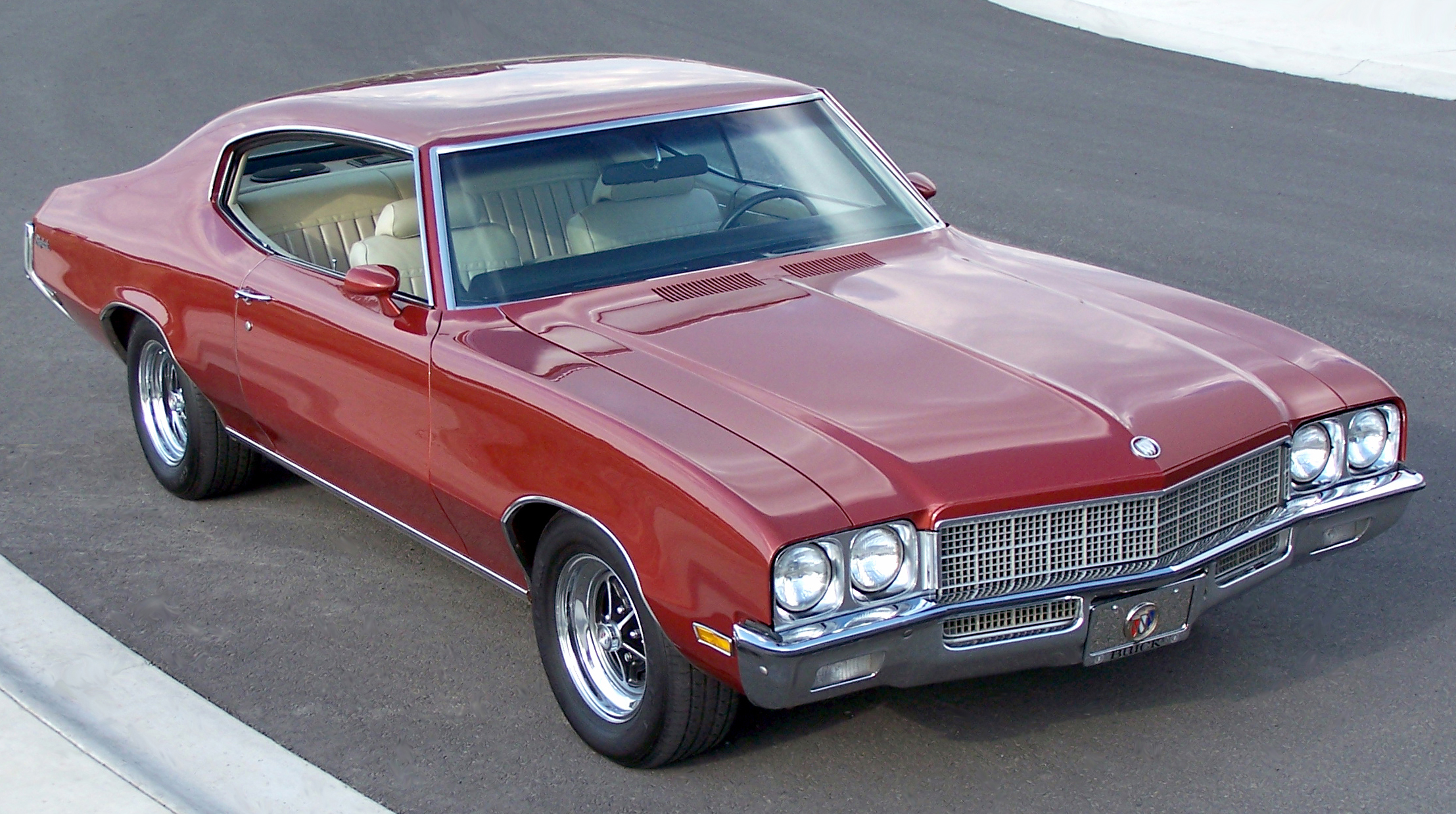 1972 Buick Skylark (front view)